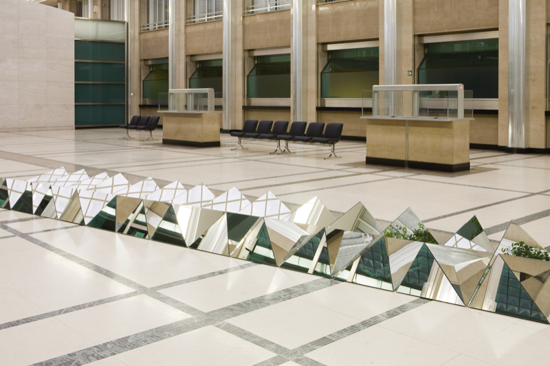 Carla Arocha and Stéphane Schraenen, Circa Tabac, 2007. Mirror and steel structure, 55 parts, 34,8 x 150 x 1400 cm. Installation view of the exhibition "Brussels Biennial," 2008, at the Nationale Bank, Brussels.